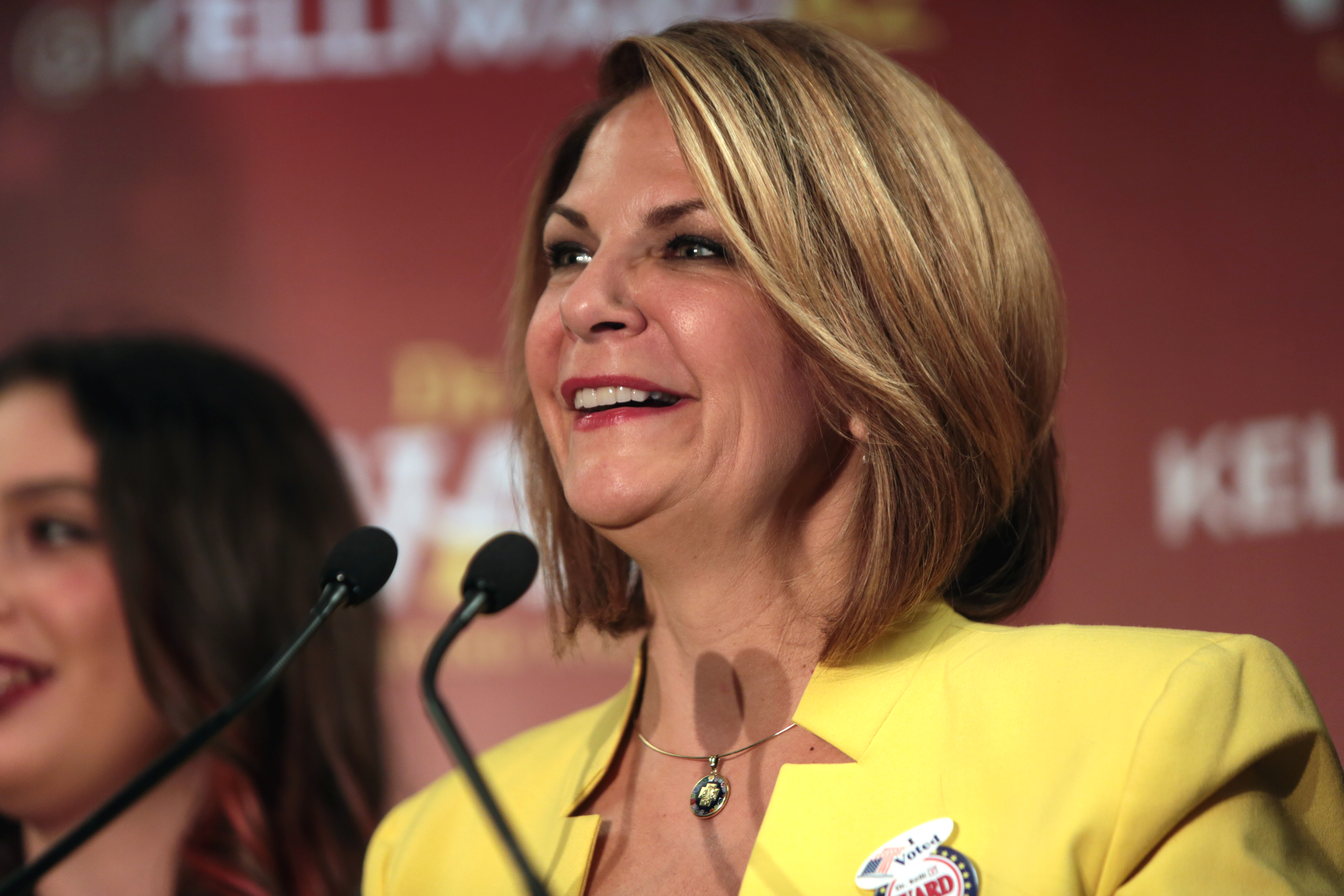 Former State Senator Kelli Ward speaking with supporters at a primary election night watch party in Scottsdale, Arizona.